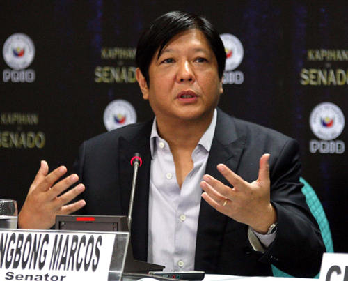 Senator Ferdinand Marcos Jr. gestures during a Kapihan sa Senado forum in June 2014.